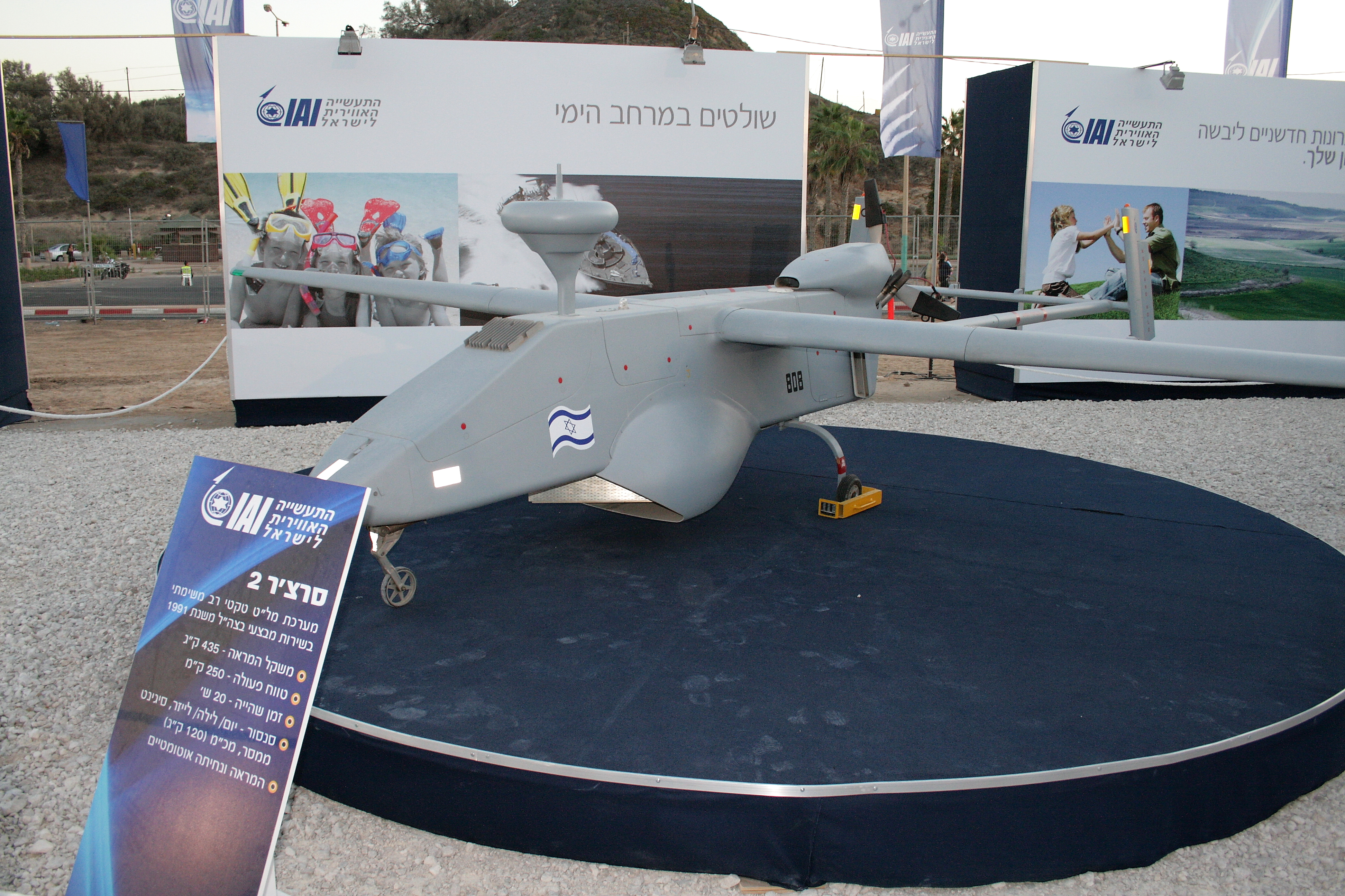 IAI Searcher 2 UAV